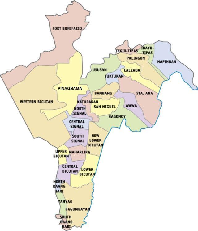 Taguig City Map and the division of Barangays